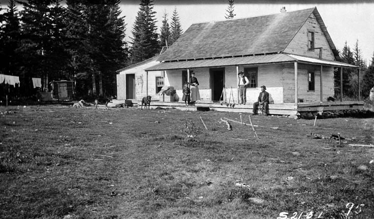 This is a photo of the Portage La Loche Post factor's house in September, 1908 taken by the Crean Expedition in West La Loche. The Hudson's Bay Company factor in 1908 was John O. Groat. His wife and daughter are in this picture.